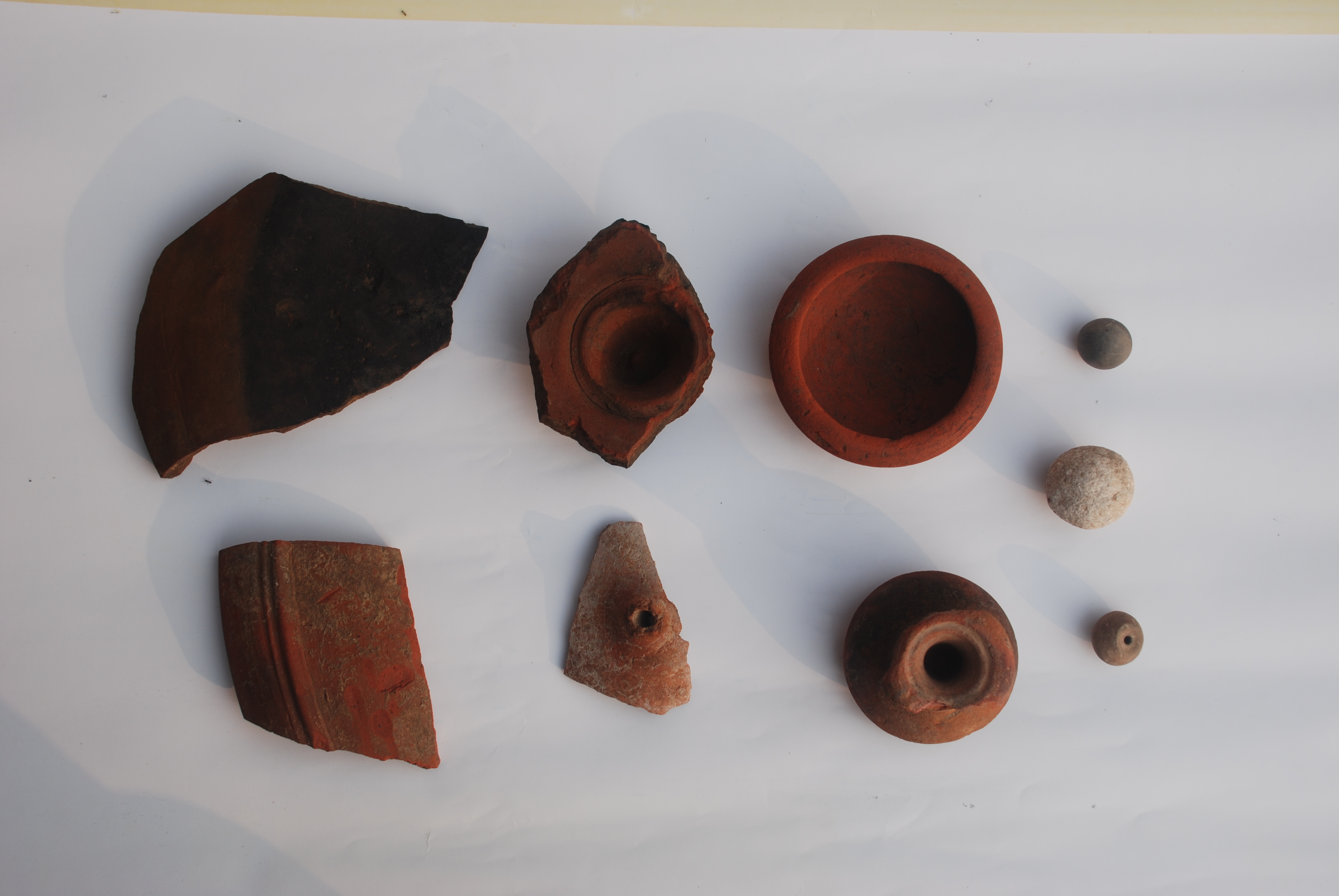 Earthanware found in the bed of Sahibi River, Rewari district